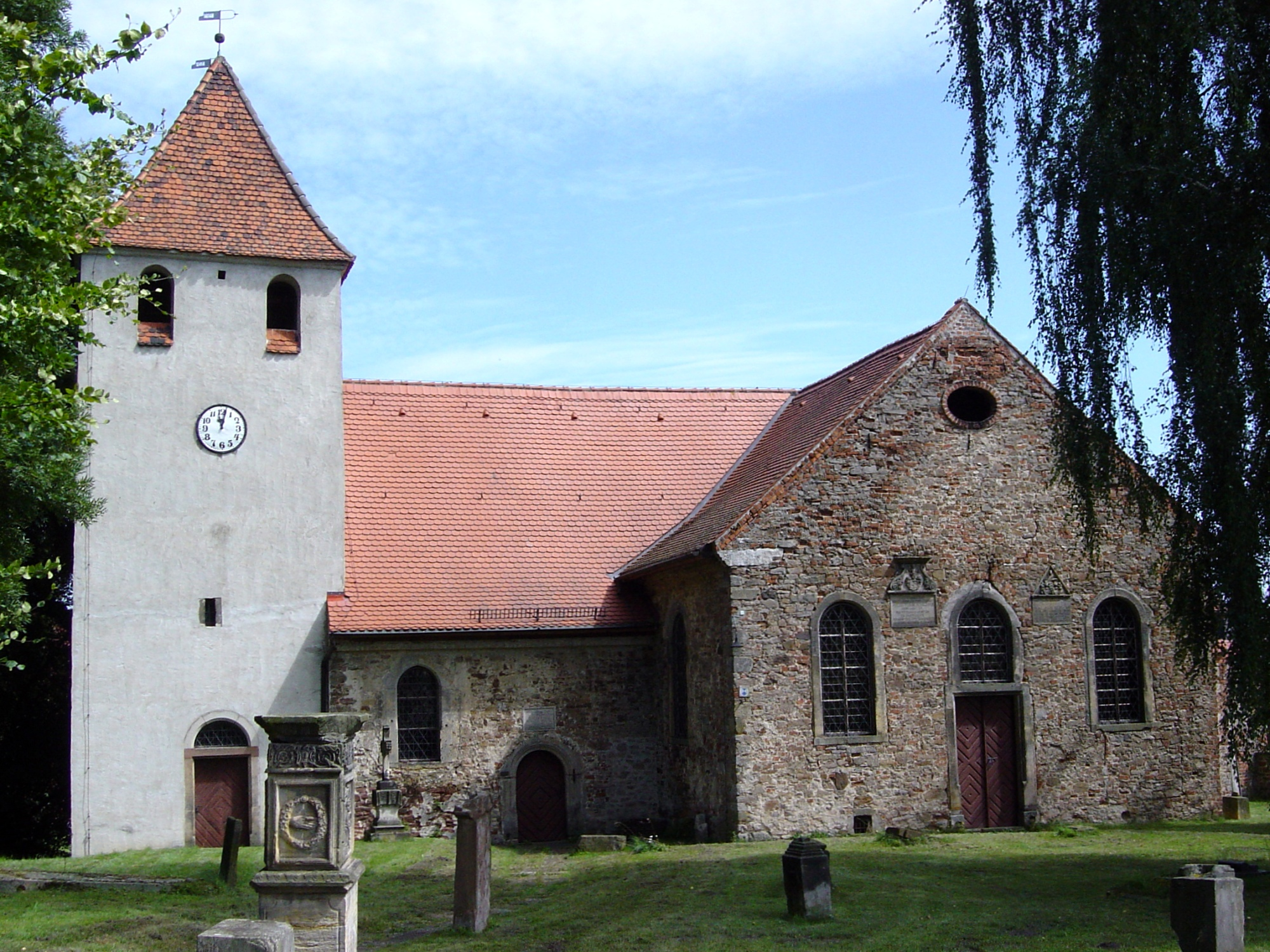 Protestant Trinitatis Church in Altenhausen, Germany